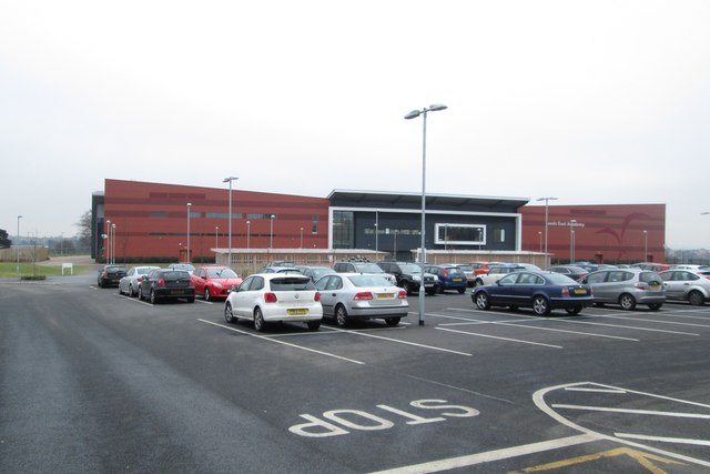 Leeds East Academy - viewed from Foundry Mill Street